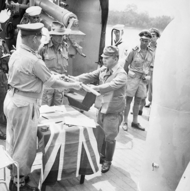 KUCHING, SARAWAK. 1945-09-11. ABOARD THE CORVETTE HMAS KAPUNDA GENERAL H. YAMAMURA, COMMANDING OFFICER OF JAPANESE FORCES IN THE KUCHING AREA, HANDS HIS SWORD TO BRIGADIER T. C. EASTICK, COMMANDING OFFICER, KUCHING FORCE, ON THE OCCASION OF THE FORMAL SIGNING OF THE JAPANESE SURRENDER. IN THE RIGHT BACKGROUND IS LIEUTENANT A. J. FORD RANR, COMMANDING OFFICER OF THE KAPUNDA. AT THE EXTREME LEFT A PERSON IS EITHER BROADCASTING OR MAKING A RECORDING OF THE PROCEEDINGS. (NAVAL HISTORICAL COLLECTION).